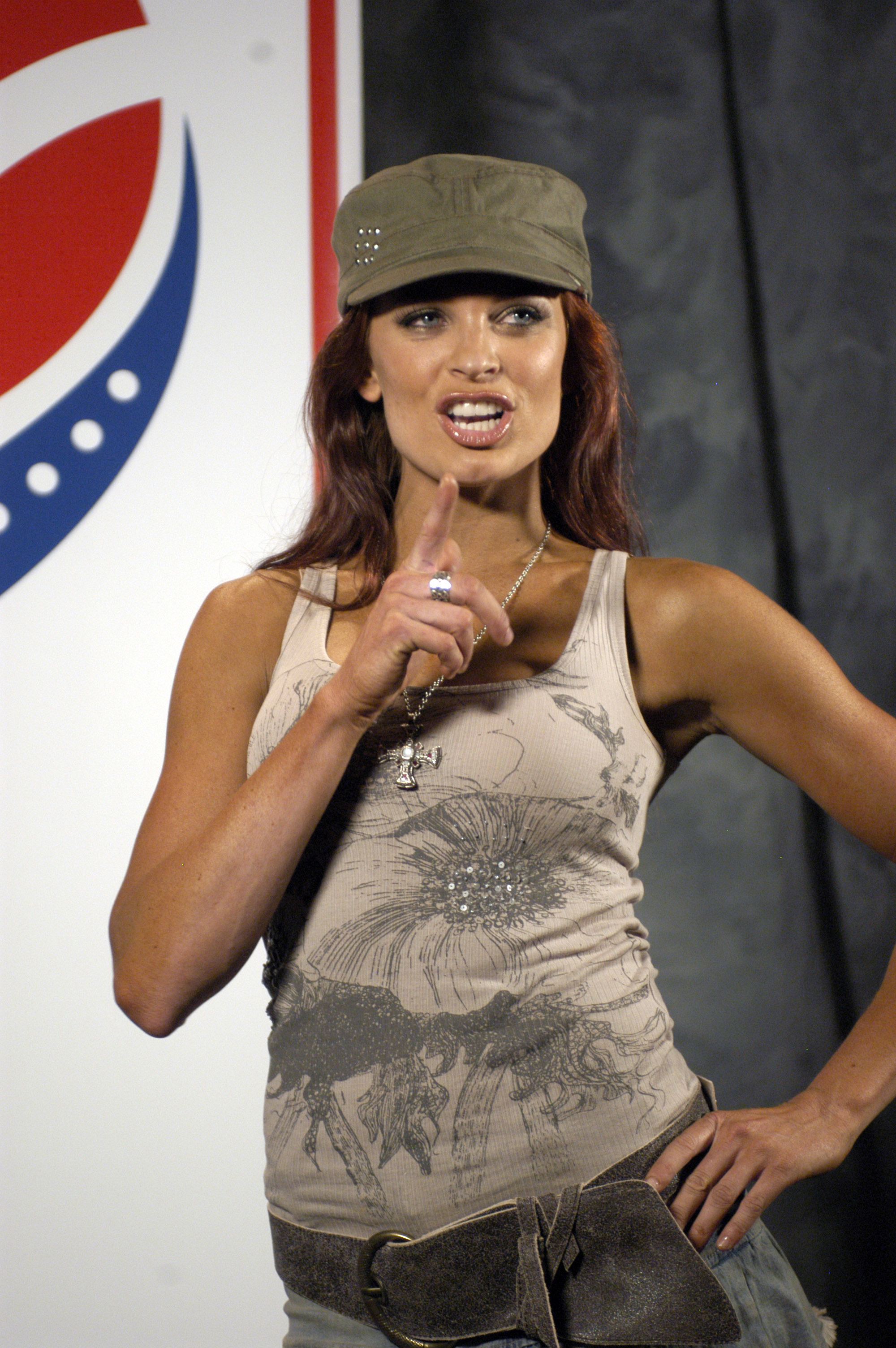 World Wrestling Entertainment diva Christy Hemme records a message to the troops before the start of SummerSlam at the MCI Center in Washington Aug. 21. Patients from Walter Reed Army Medical Center were in the crowd cheering their favorite wrestling personalities and booing the bad guys. Hemme was one of several WWE personalities to record a message for the troops.